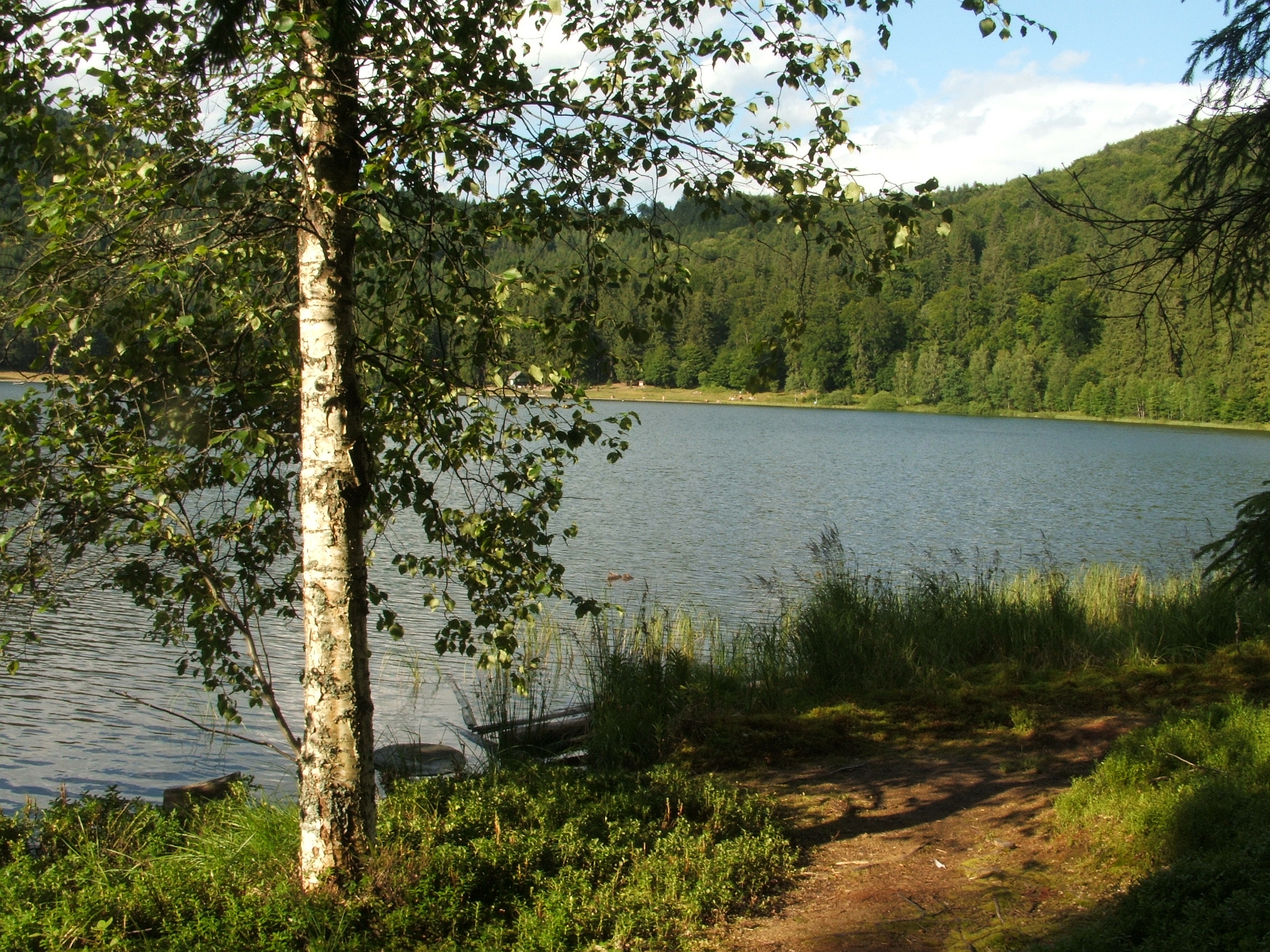 Lake Saint Ann in Transylvania, near Tusnádfürdő (Baile Tuşnad)